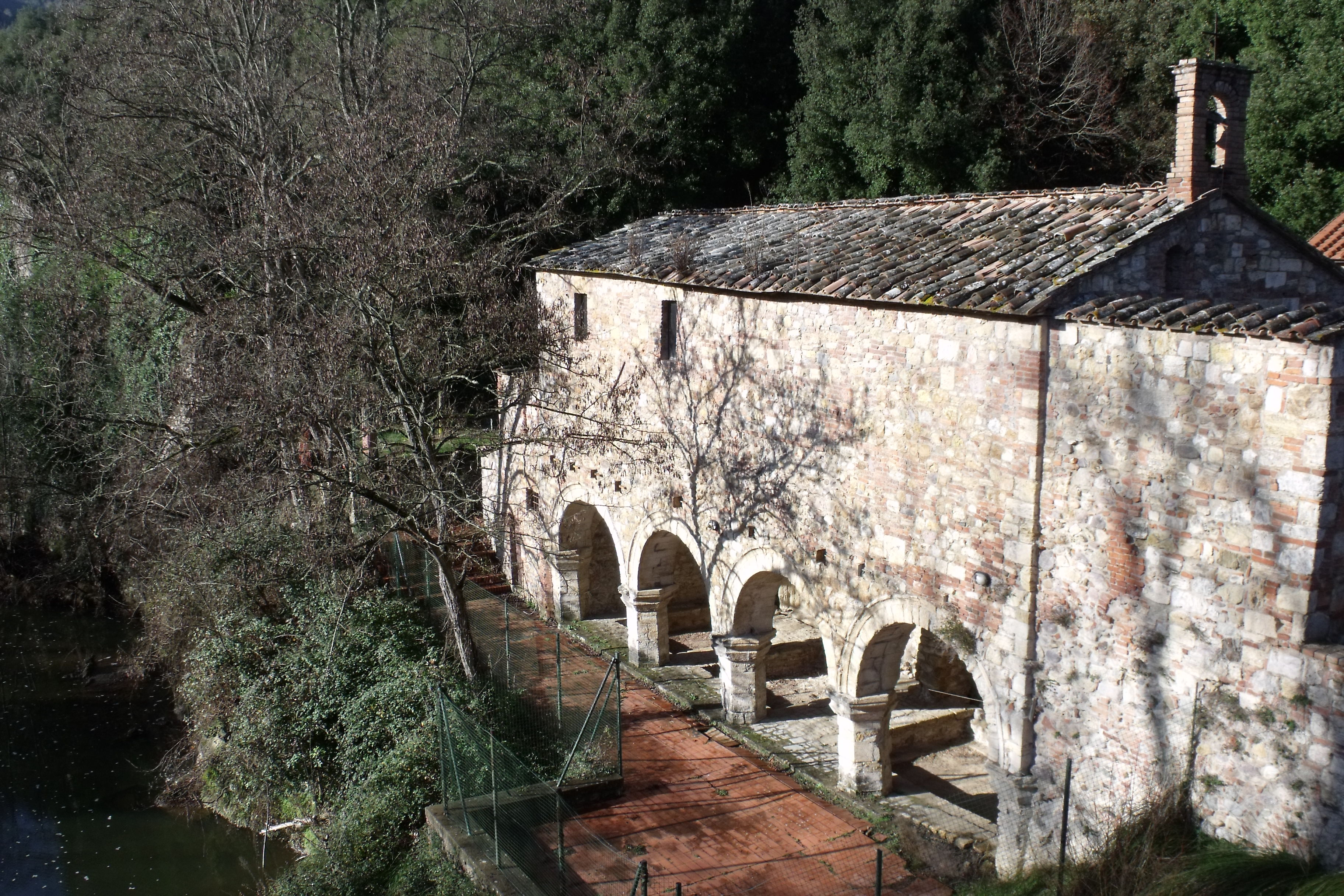 Thermal bath in Bagni di Petriolo, Monticiano, Province of Siena, Tuscany, Italy